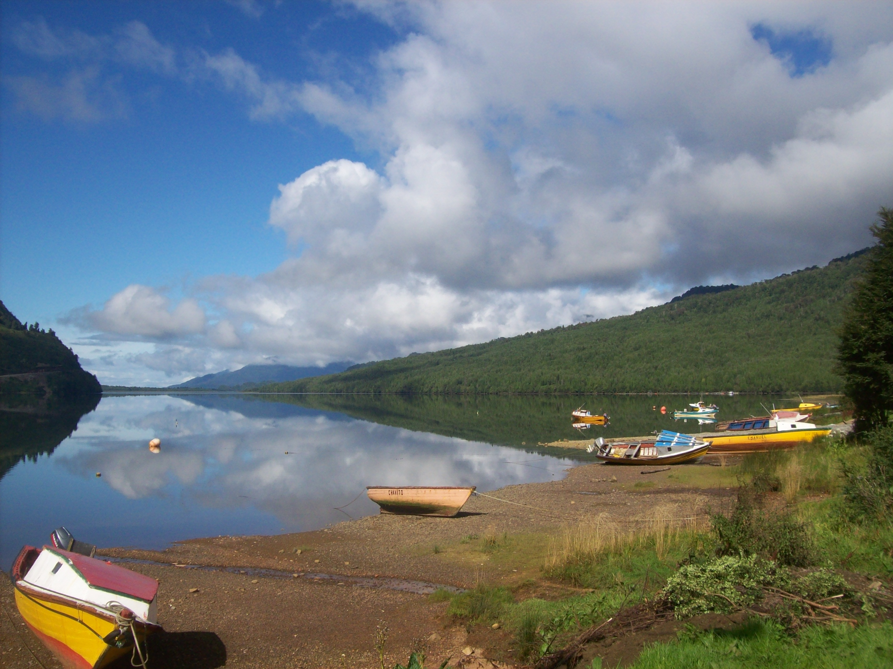 Puyuhuapi's Bay